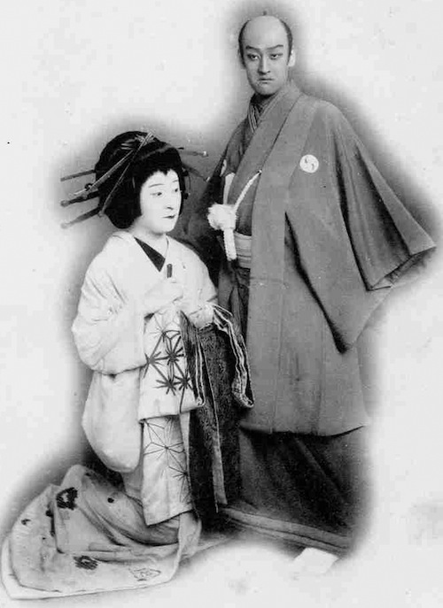 Fujaku Onoe VIII (left, 1882–1916) as Okaru and Kanya Morita XIII (1885–1932) as Ōboshi Yuranosuke, in the Novembre 1910 Tokyo Ichimura-za production of Kanadehon Chūshingura Act VII